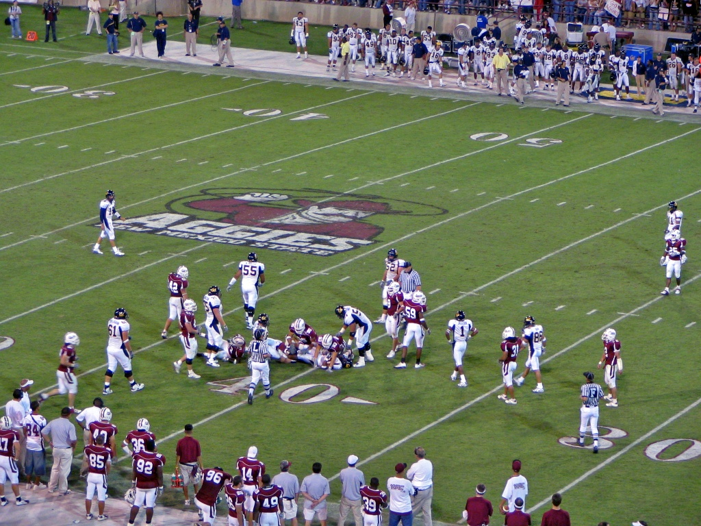 NMSU Aggies vs. California Bears, at Aggie Memorial Stadium